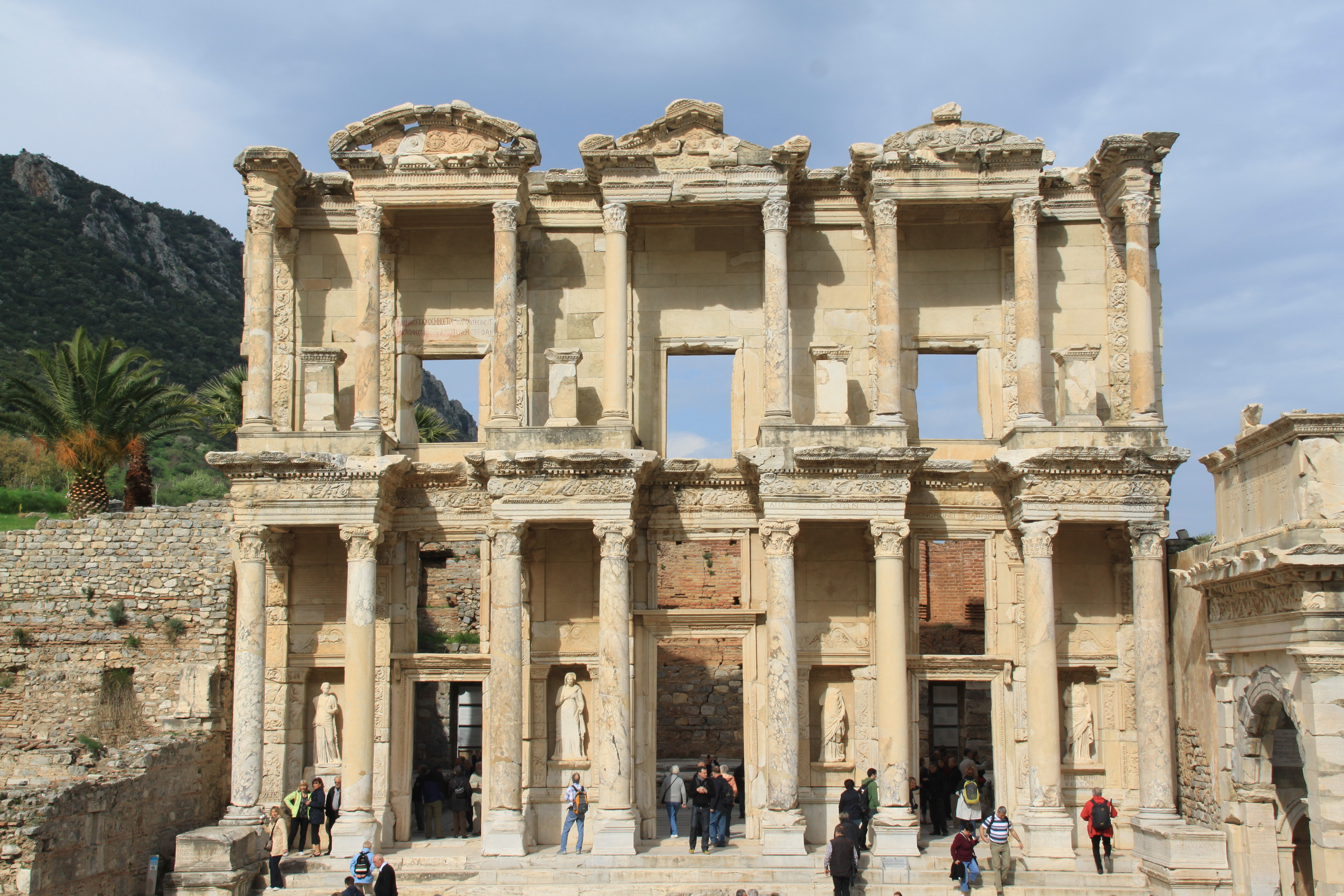 Celsus-Library, Ephesus